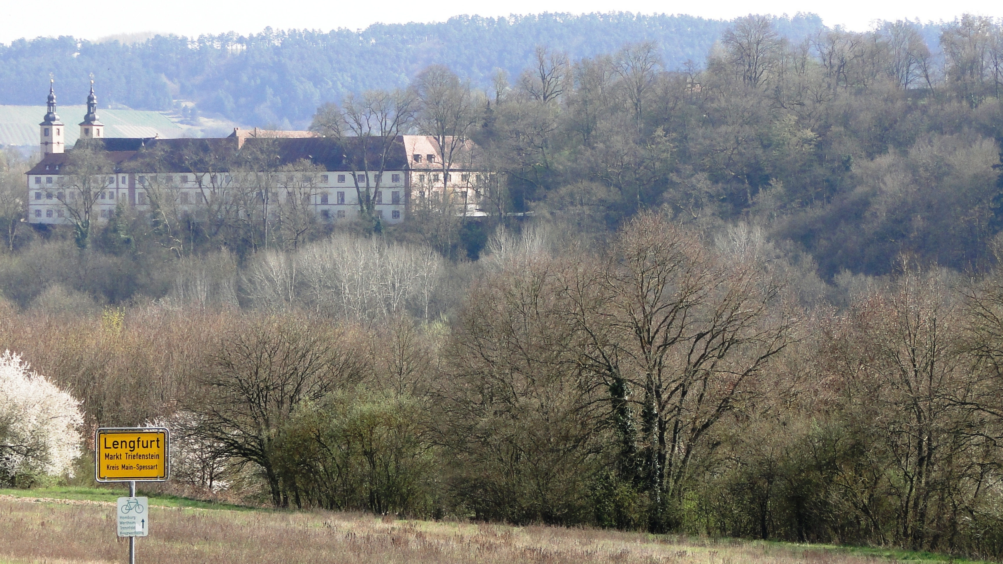 Kloster Triefenstein seen from across the Main river with the town sign of Lengfurt in the foreground